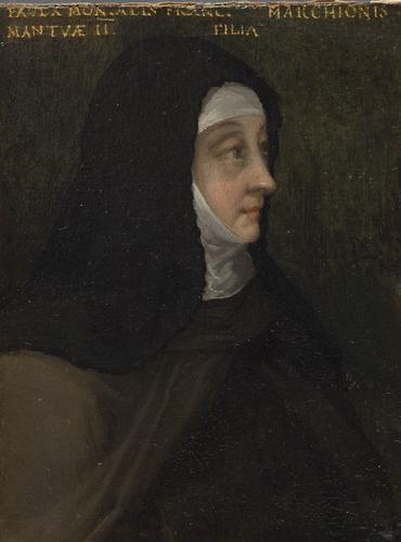 Portrait of Livia (Paola) Gonzaga (1508-1569)